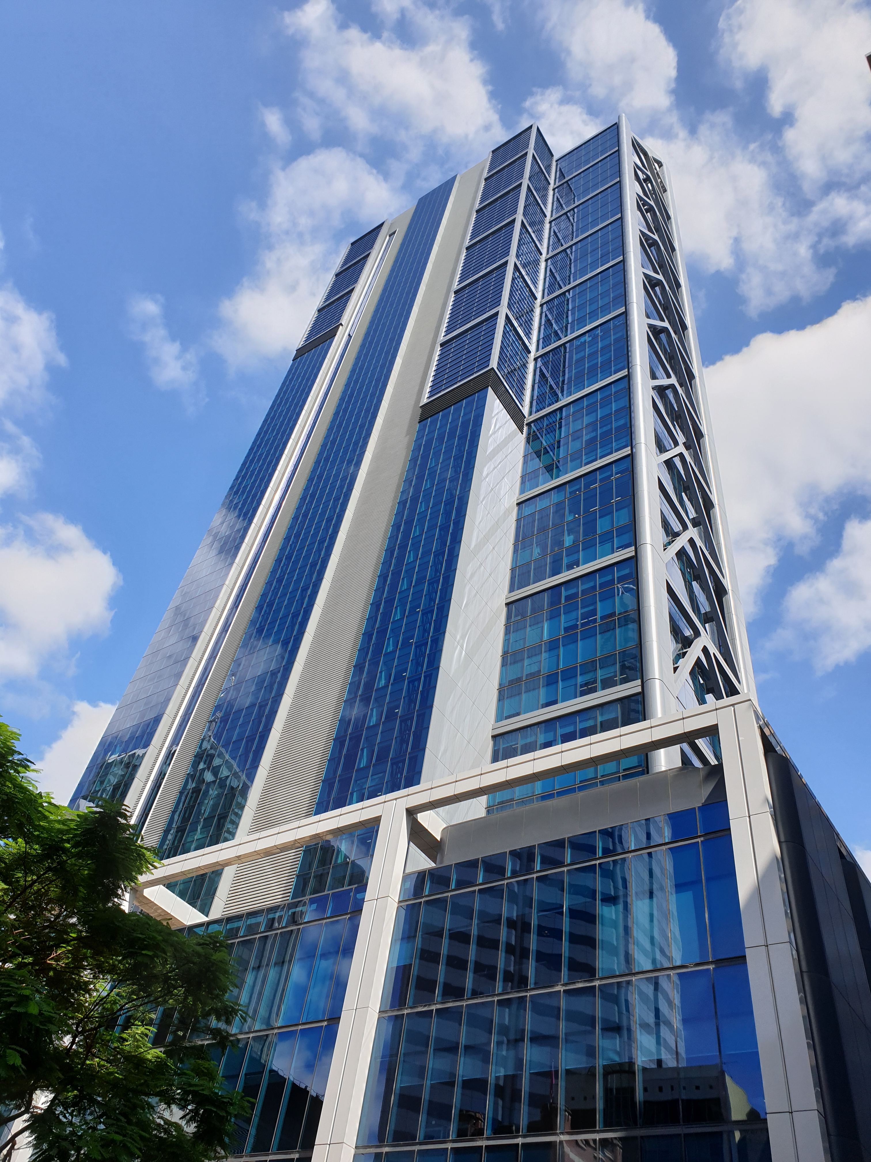 taken St George's Tce